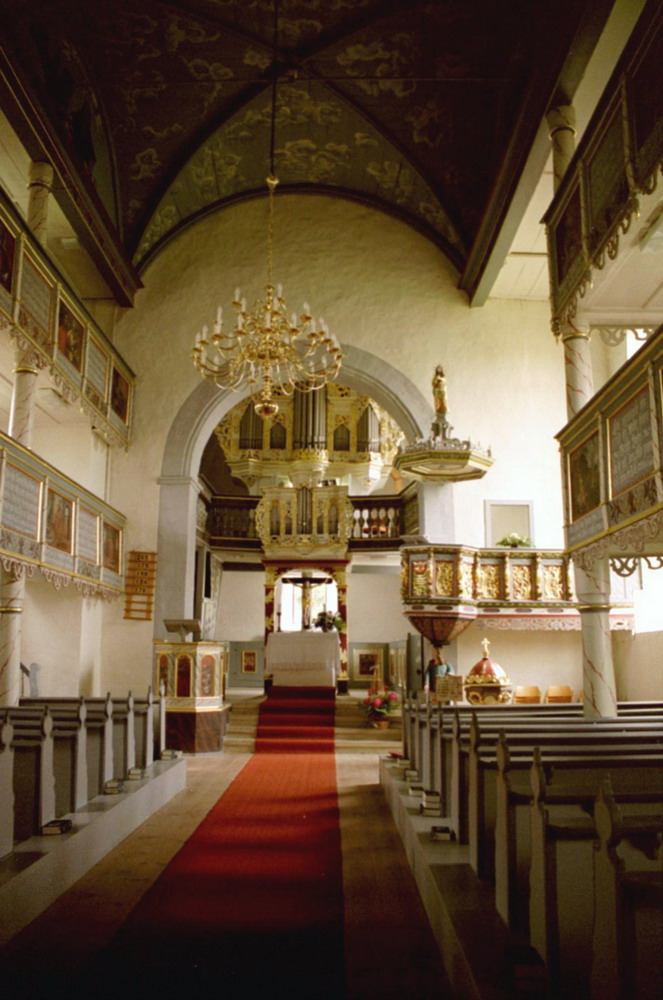 Church in the little village Kaltenlengsfeld near Kaltennordheim in South West Thuringia.